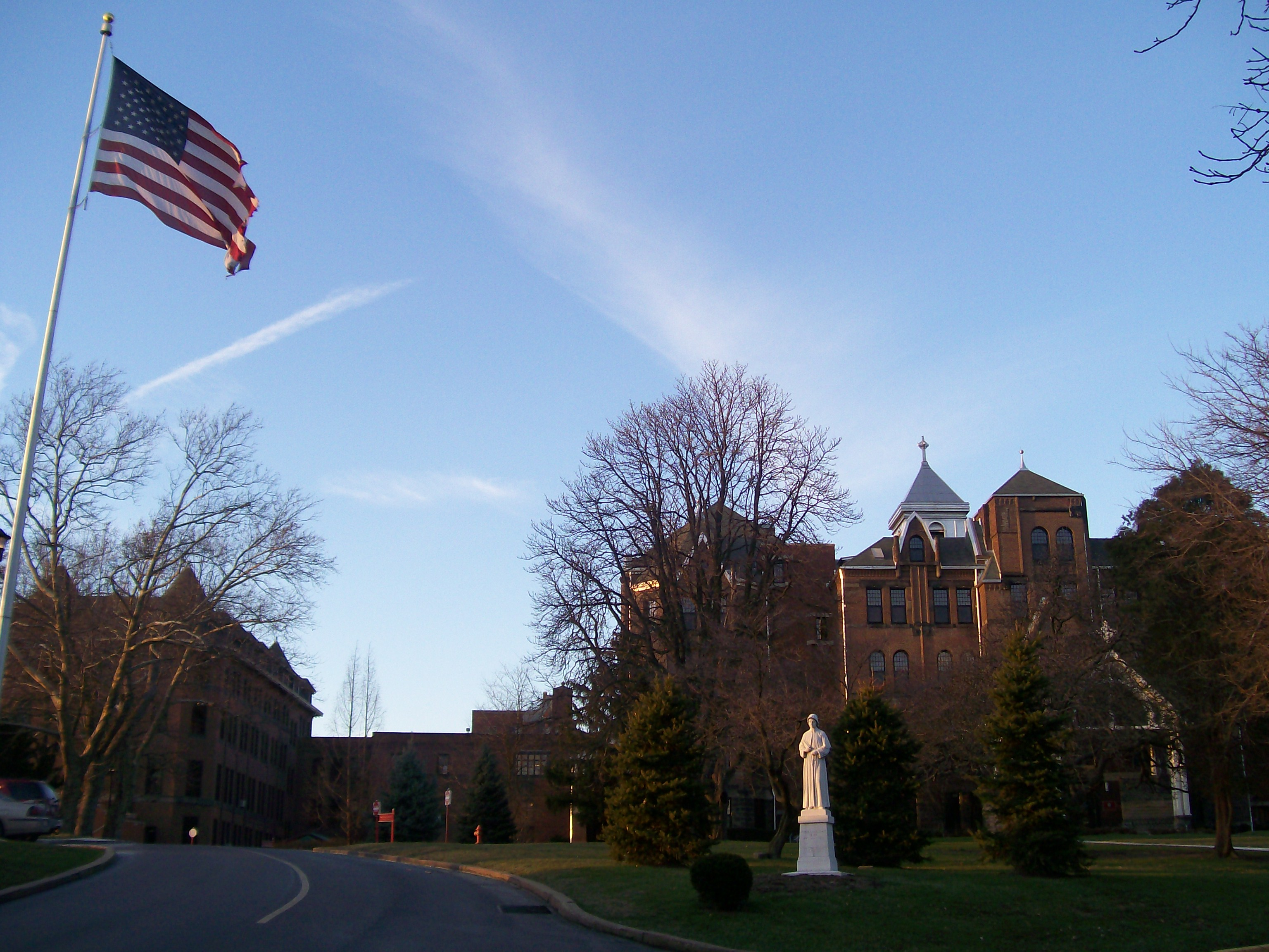 The Seton Hill University Administration Building, with a statue of Elizabeth Ann Seton.